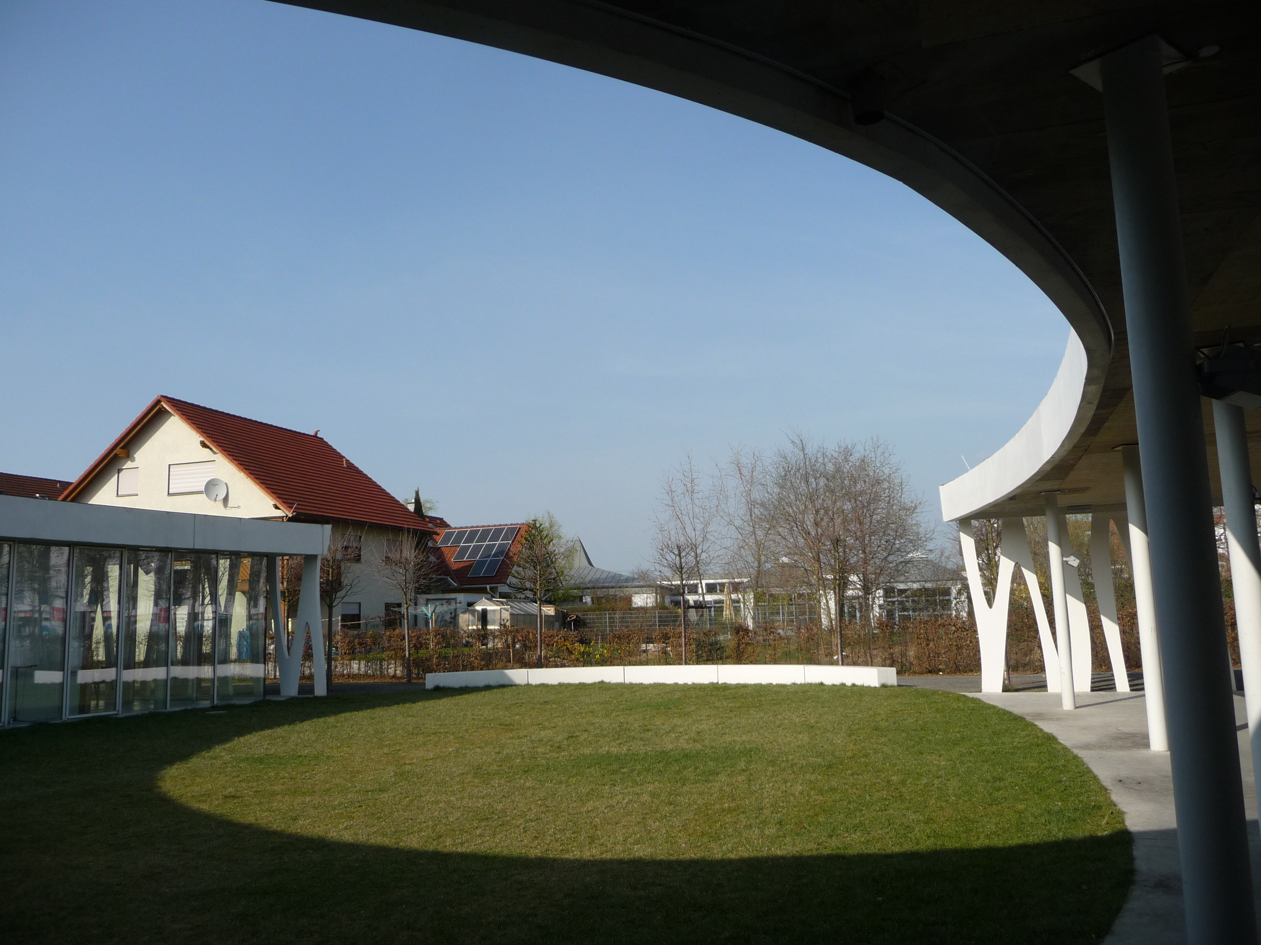 Gemeindezentrum Neuhermsheim